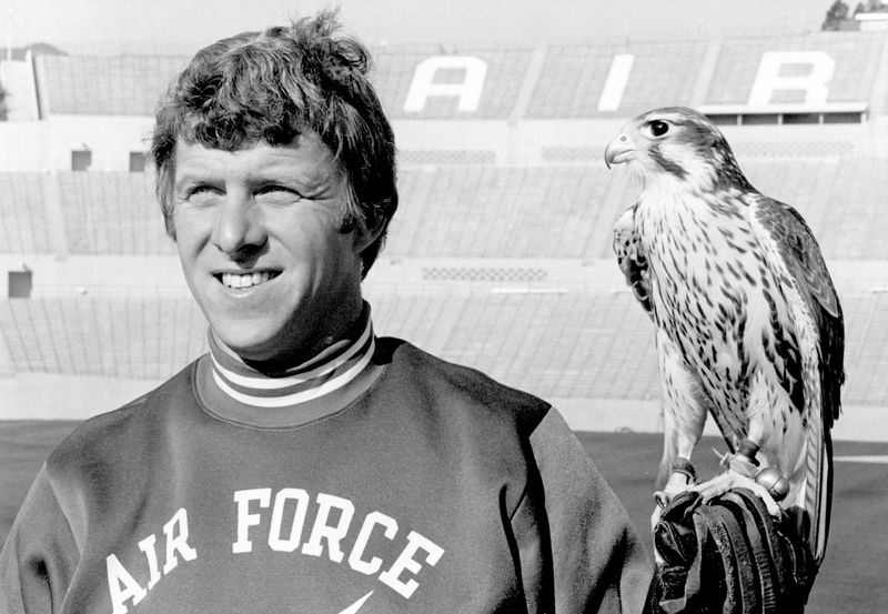 Air Force Academy football coach Bill Parcells poses with mascot Mach 1 the falcon.